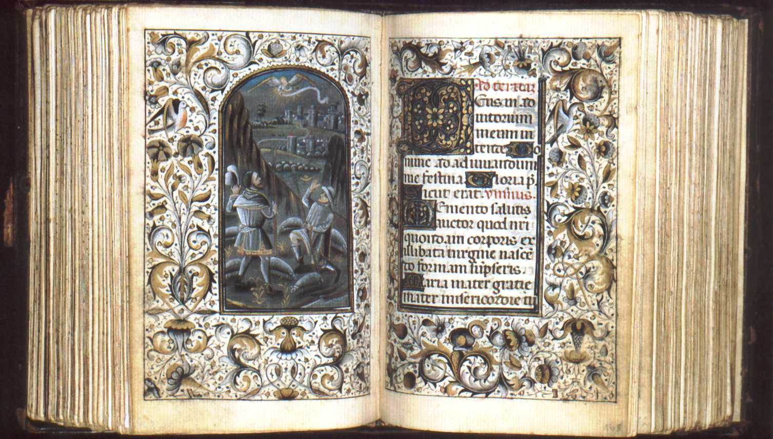 Two page from a Book of Hours (Milan, Biblioteca Trivulziana, Cod. 470) showing the Annunciation to the Shepherds.